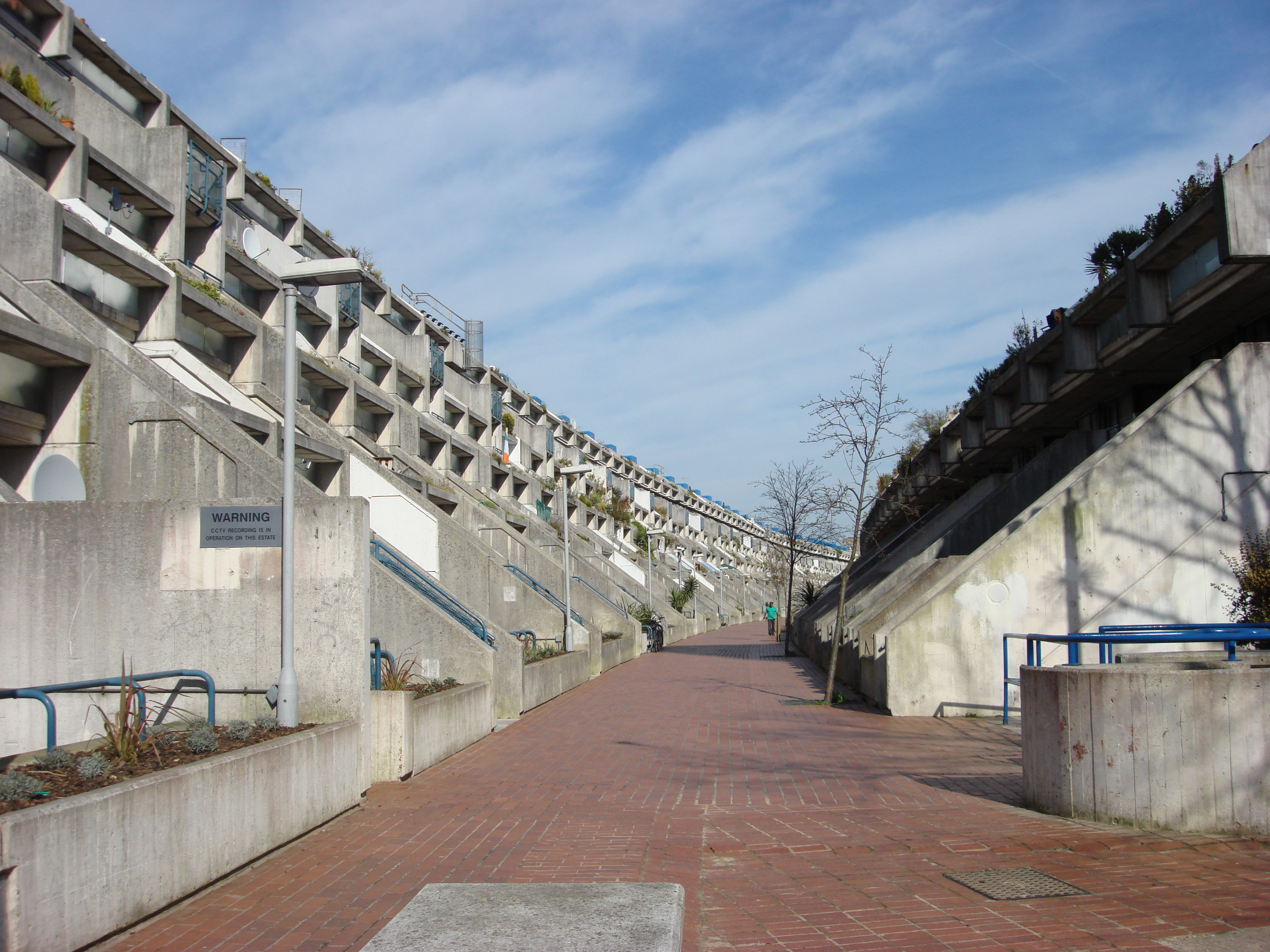 Rowley Way, Alexandra and Ainsworth Estate, Camden, London